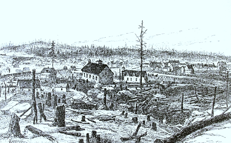 Print, The Canadian Pacific Railway: Sudbury Junction, to Algoma and Gold Mines, F. Jennings, 1888, Ink on newsprint - Wood engraving - 39.4 x 29.4